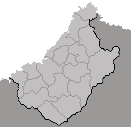 map of Chagando, DPRK, 2006